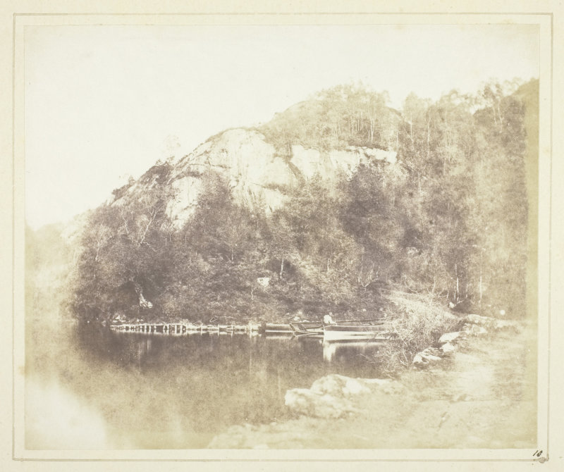 Salted paper print by Henry Fox Talbot, plate X from the album "Sun Pictures in Scotland" (1845)